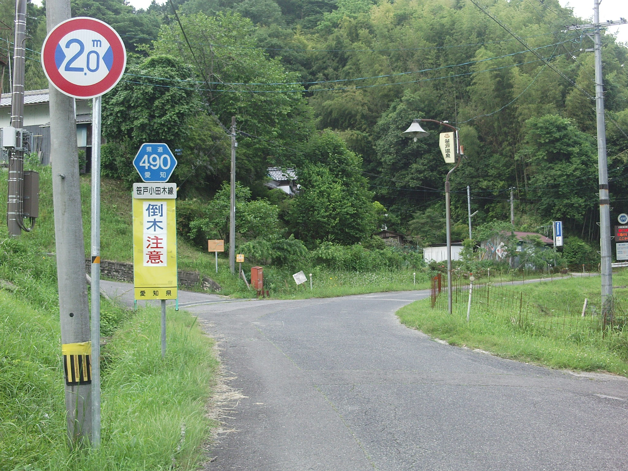 Aichi prefectural road No.490 in Sasadocho, Toyota, Aichi.